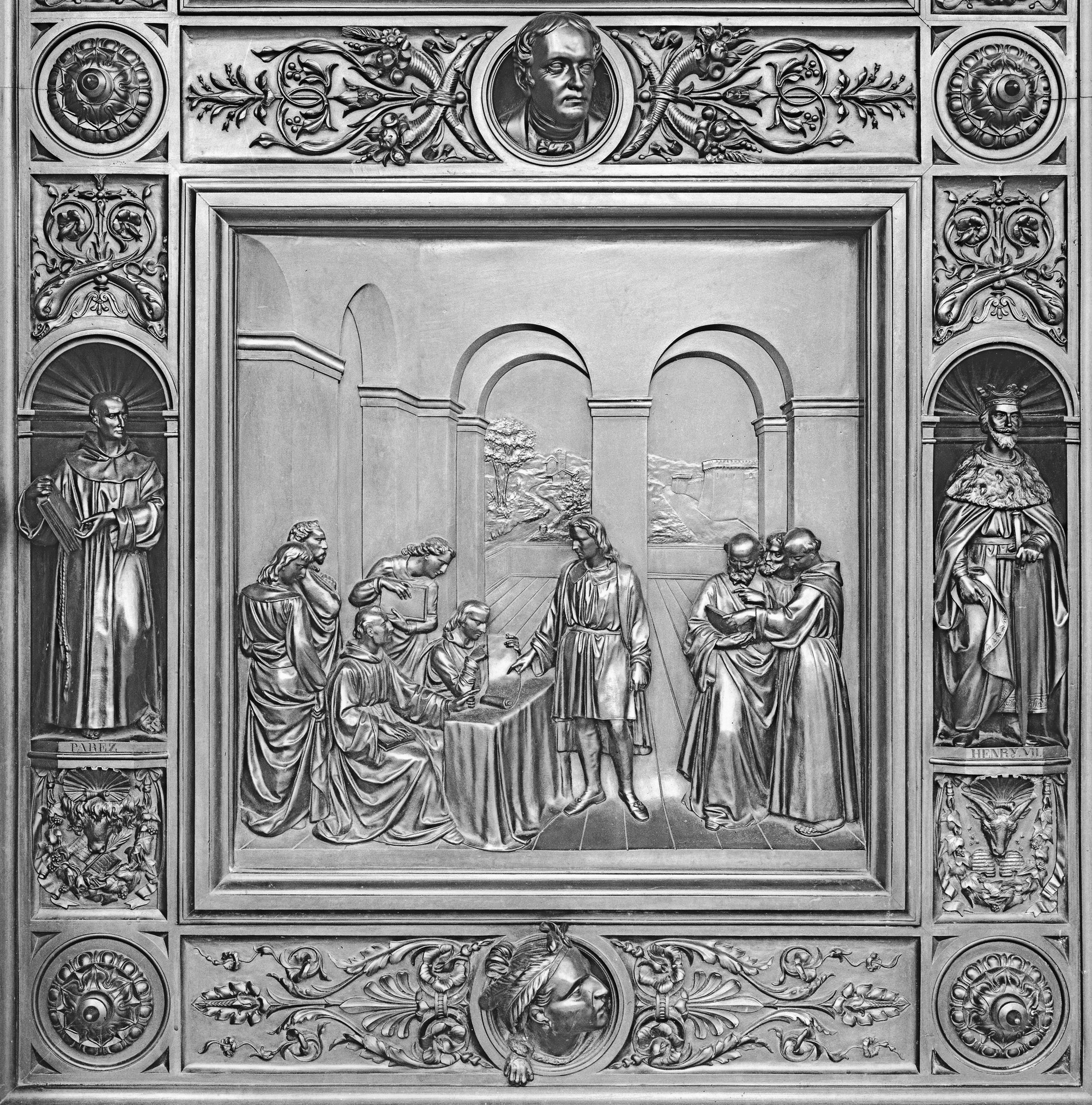 Columbus displays a chart in an unsuccessful endeavor to convince the Council appointed by King Ferdinand to support his theory of a new route to India. On either side of the panel are the statuettes of Juan Perez de Marchena (inscribed "Paraz"), prior of the Convent of La Rábida and friend of Columbus, and Henry VII of England, a patron of navigation, who agreed with Columbus's theory. This official Architect of the Capitol photograph is being made available for educational, scholarly, news or personal purposes (not advertising or any other commercial use). When any of these images is used the photographic credit line should read “Architect of the Capitol.” These images may not be used in any way that would imply endorsement by the Architect of the Capitol or the United States Congress of a product, service or point of view. For more information visit